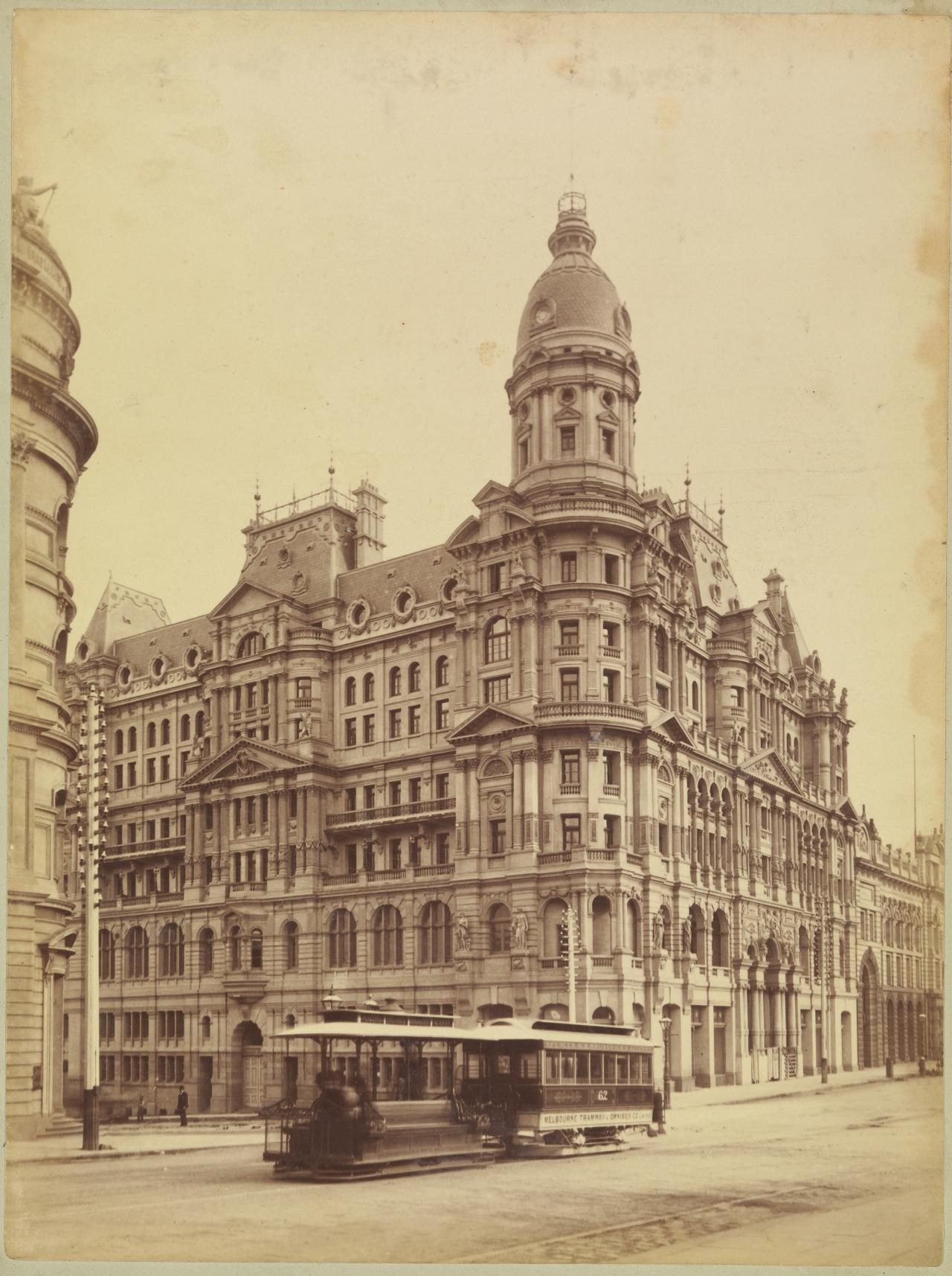 A cable tram, apart of Melbourne's early tram network, passes the ornate Victorian Gothic Federal Coffee Palace on the south-west corner of Collins and King Streets in the Melbourne city centre, dated approximately between 1890 to 1900.